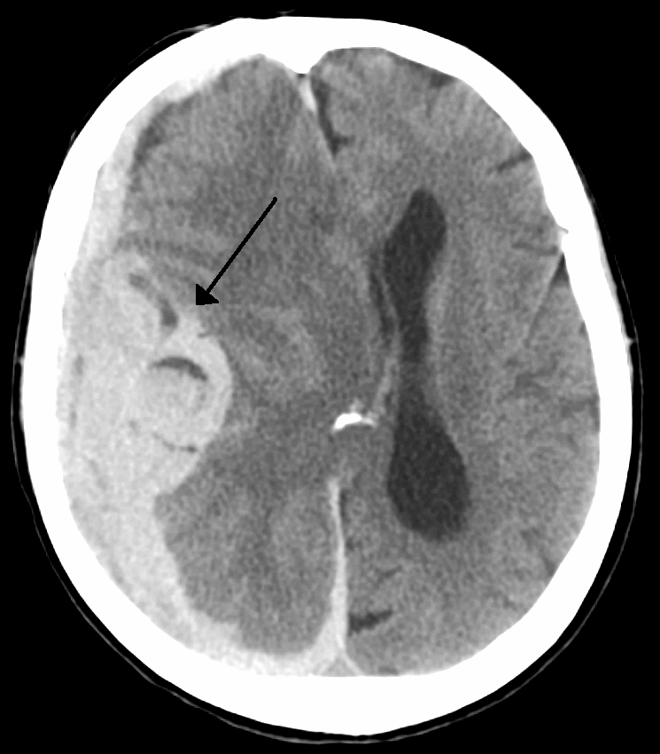 An intracranial bleed with significant midline shift